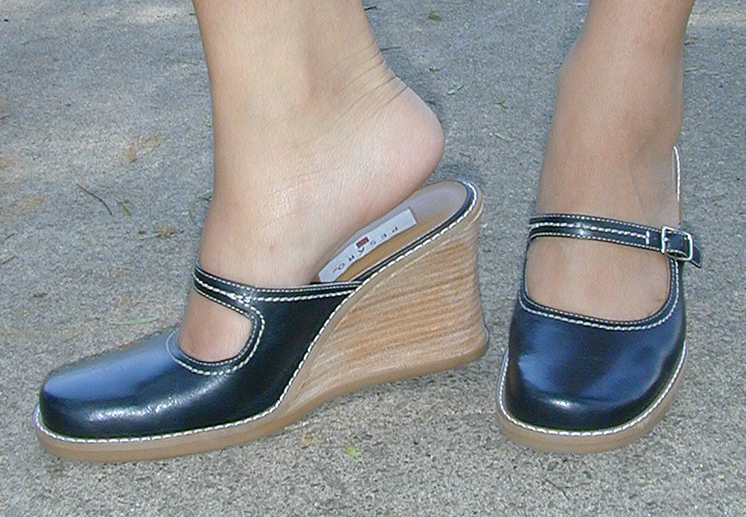 A pair of woman's Mary Jane style mules with a wedge heel.